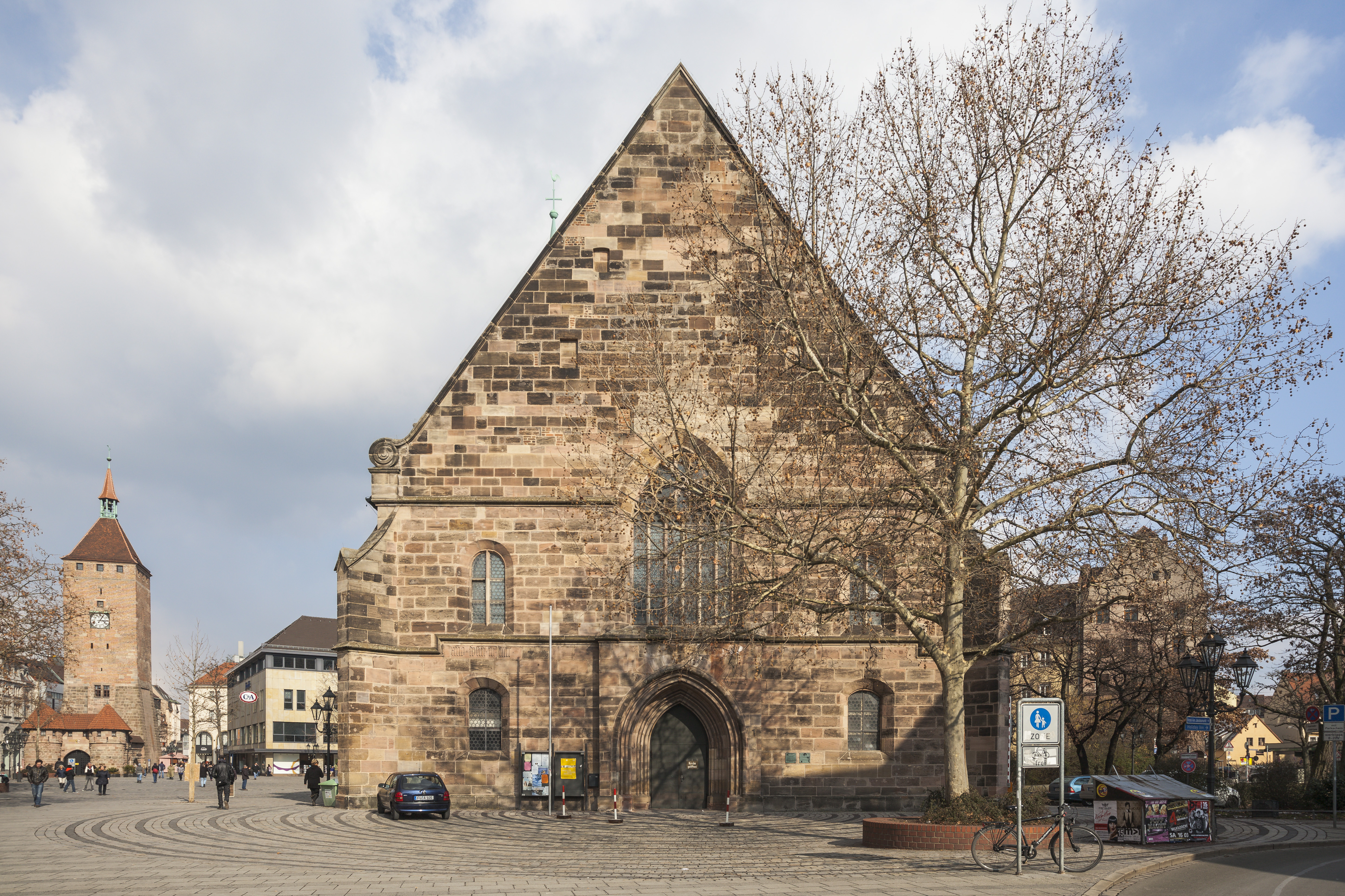 Church of St. Jacob, Nuremberg, Germany